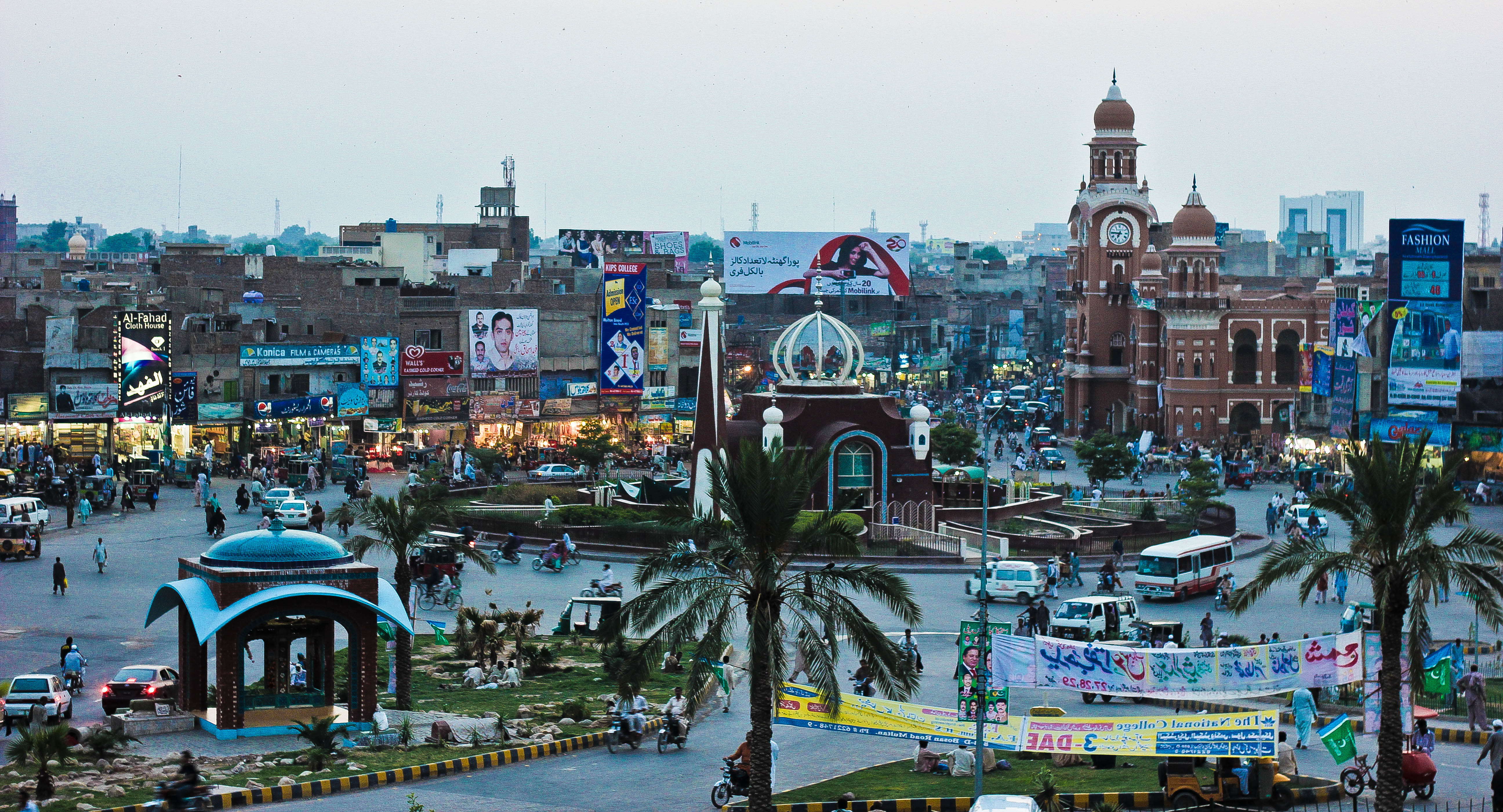 Ghanta Ghar This is a photo of a monument in Pakistan identified as the PB-U-42